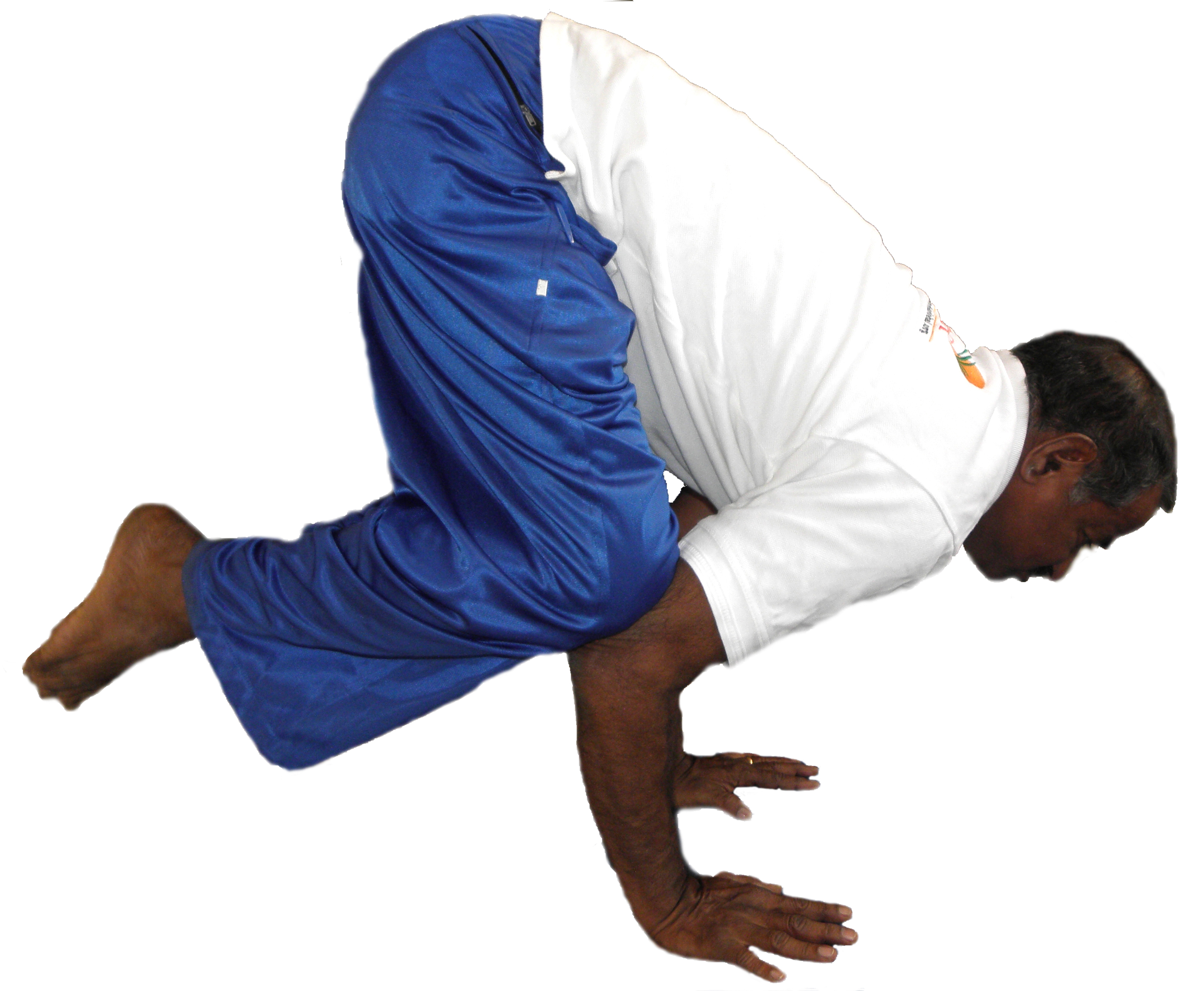 Crow pose Kakasana